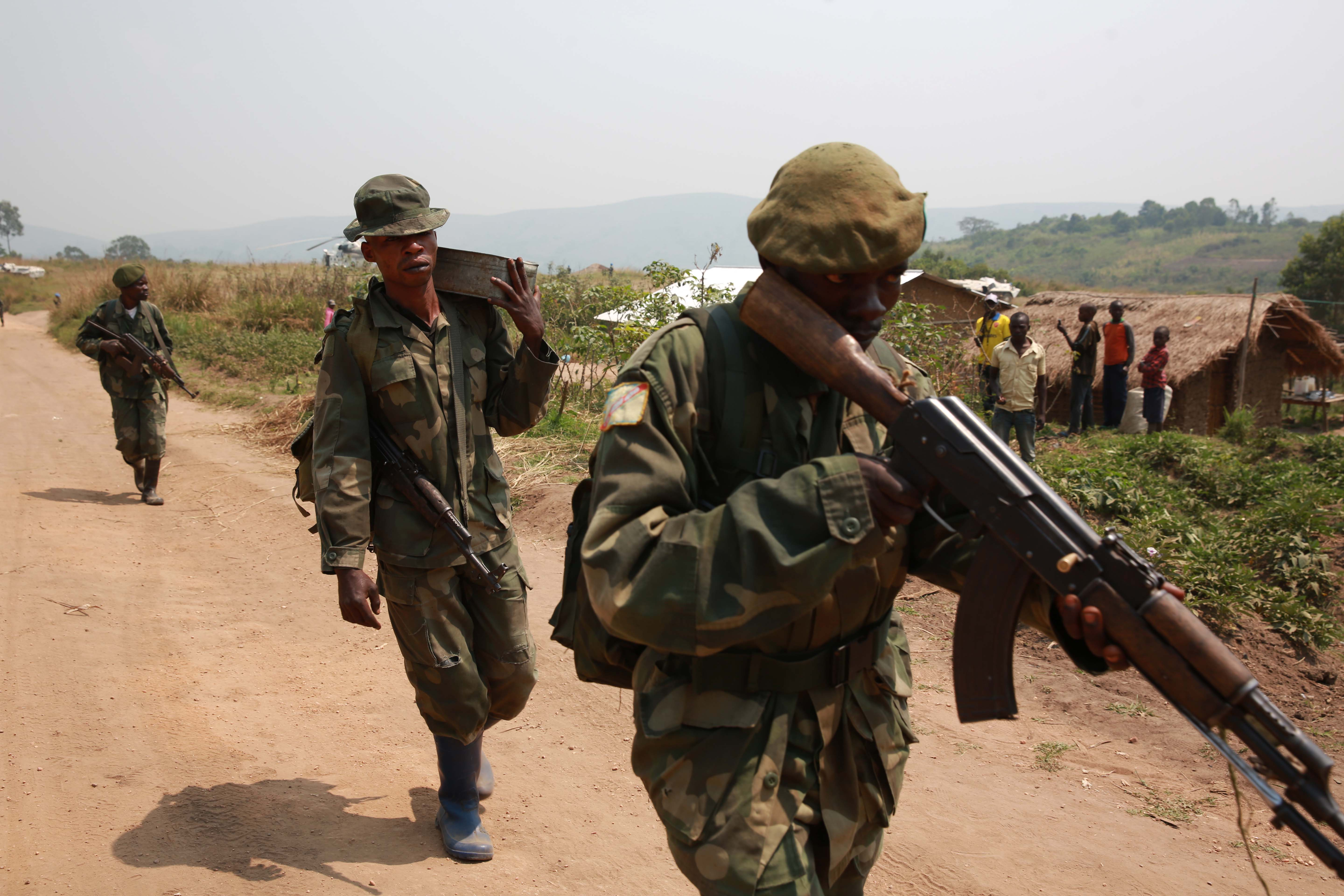 Aveba, district de l’Ituri, Province Orientale, DR Congo : Des militaires FARDC en patrouille. L’état-major général des Forces Armées de la RDC a informé la MONUSCO du début de l'Opération militaire des FARDC, SUKOLA II (nettoyer en français) dirigée contre les rebelles rwandais des FDLR ce mardi 24 février au Sud Kivu. Photo MONUSCO/ Abel Kavanagh == Aveba, Ituri district, Oriental Province, DR Congo: FARDC soldiers on patrol. The General Staff of the Armed Forces of the DRC has informed MONUSCO of the start of the FARDC military operation, Sukola II (sweep in English), against Rwandan rebels of the FDLR this Tuesday 24 February in South Kivu. Photo MONUSCO/Abel Kavanagh